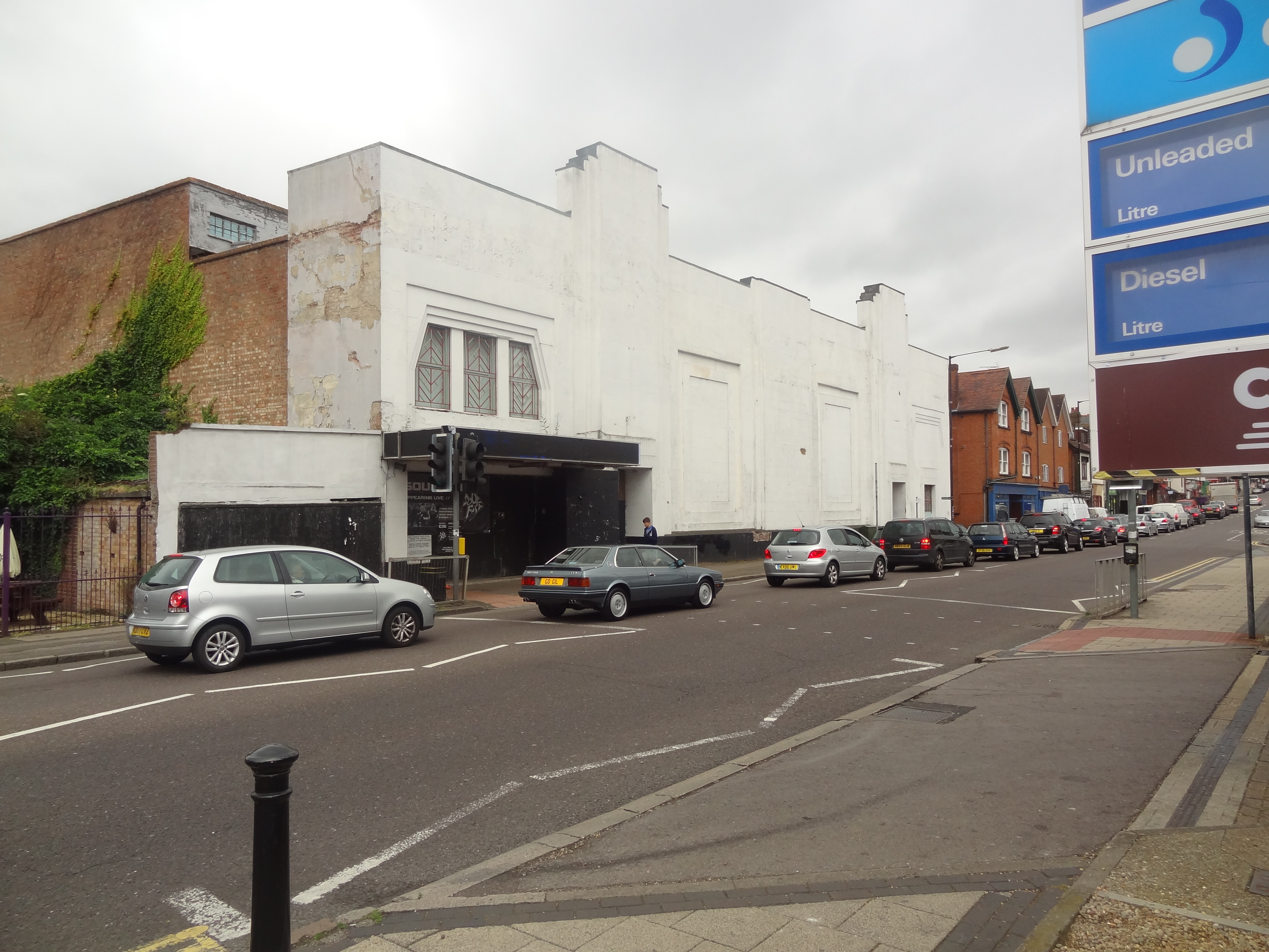 This is a picture of the Odyssey Cinema in St. Albans during its restoration in August 2012. The building reopened as a function cinema in 2014 after 19 years of not showing any films.